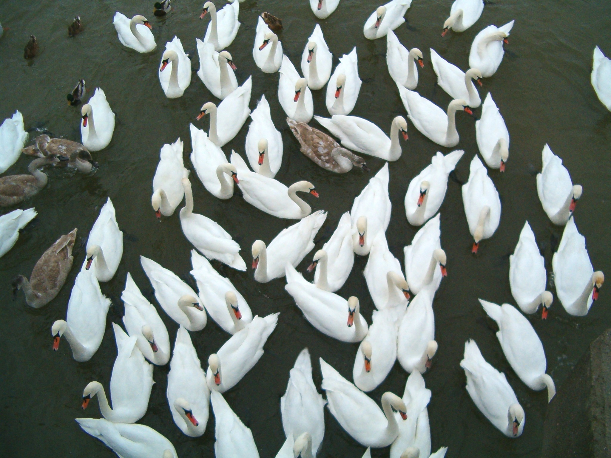 Swans